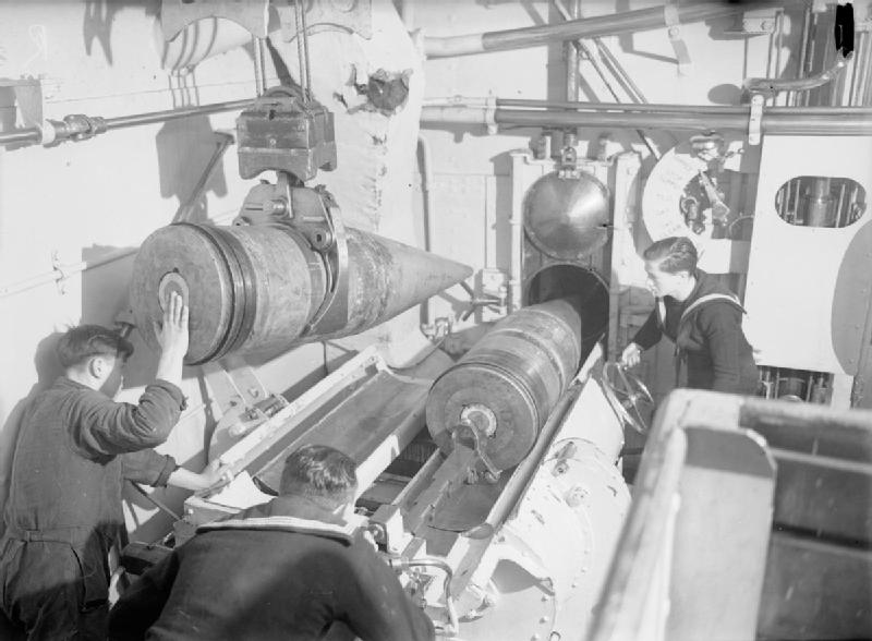 IWM caption : "A 16 inch shell just about to enter the tube on its way up to the gun on board HMS NELSON whilst the ship is at at sea. For safety's sake the shell rooms and magazines are placed right in the bowels of the ship, and the shells must be hydraulically lifted through four decks before reaching the turret."